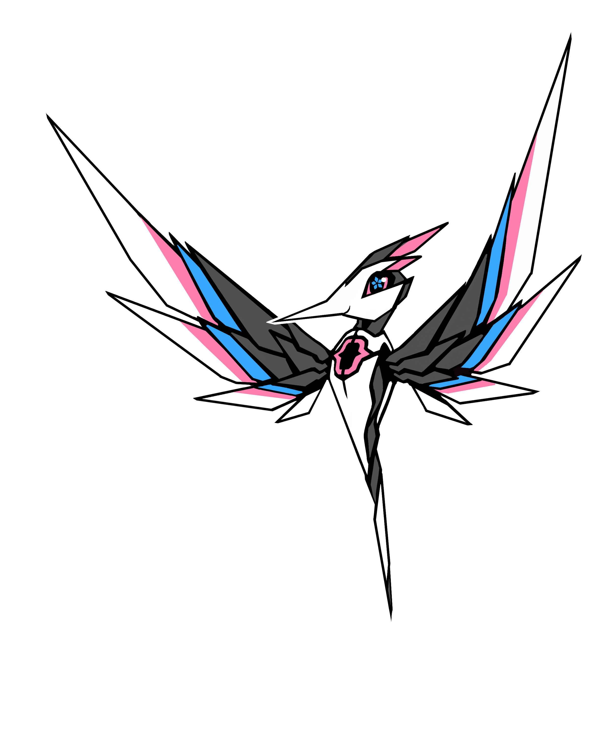 Kate the woodpecker, mascot of Kate editor.